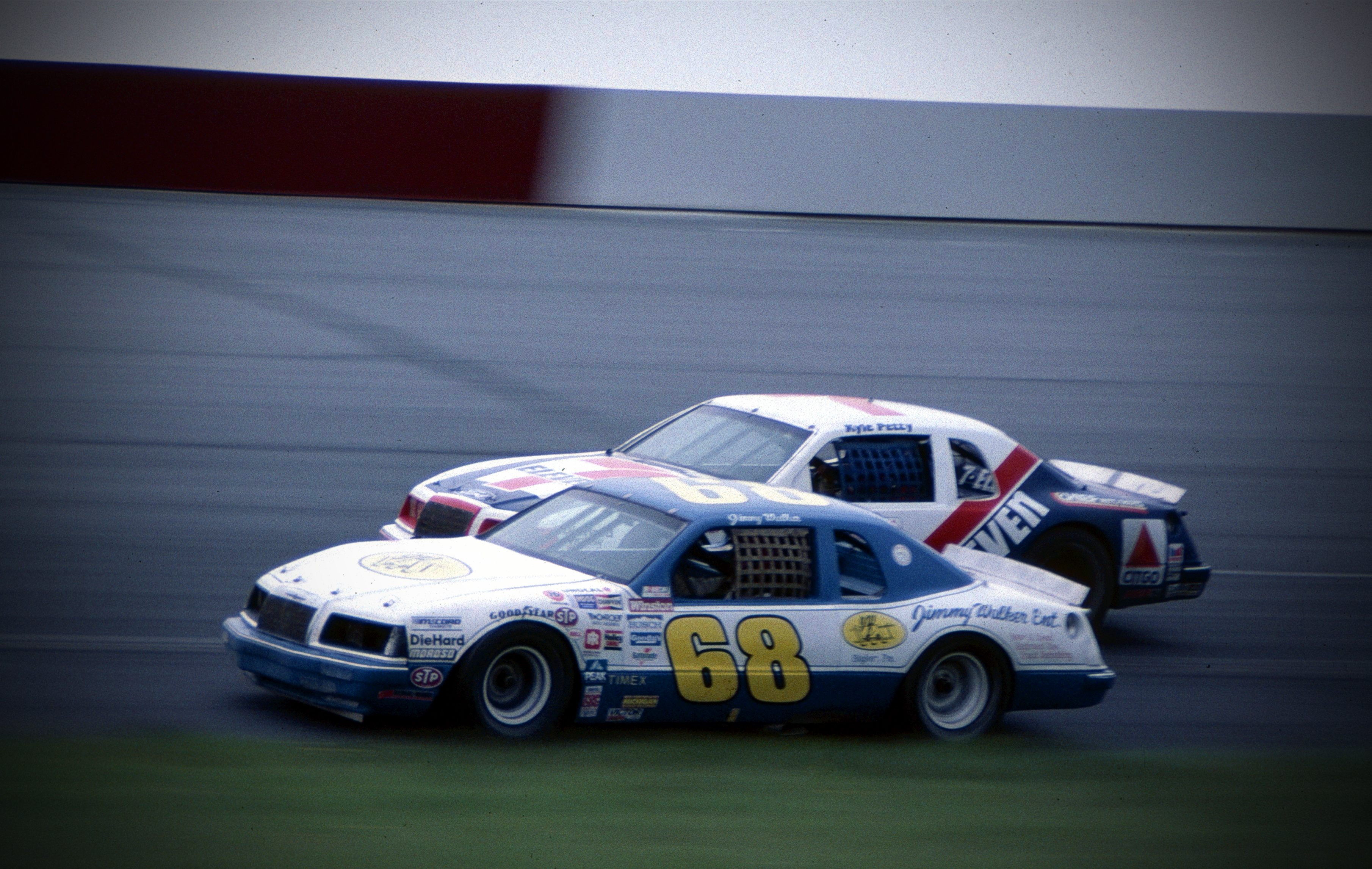 NASCAR driver Mike Potter (NASCAR) racing the #68 Jimmy Walker Enterprises car in 1985 at Pocono Raceway.